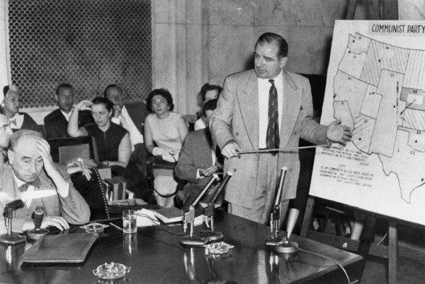 Chief Senate Counsel representing the United States Army and partner at Hale and Dorr, Joseph Welch (left), with United States Senator Joe McCarthy of Wisconsin (right), at the Senate Subcommittee on Investigations' McCarthy-Army hearings, June 9, 1954.